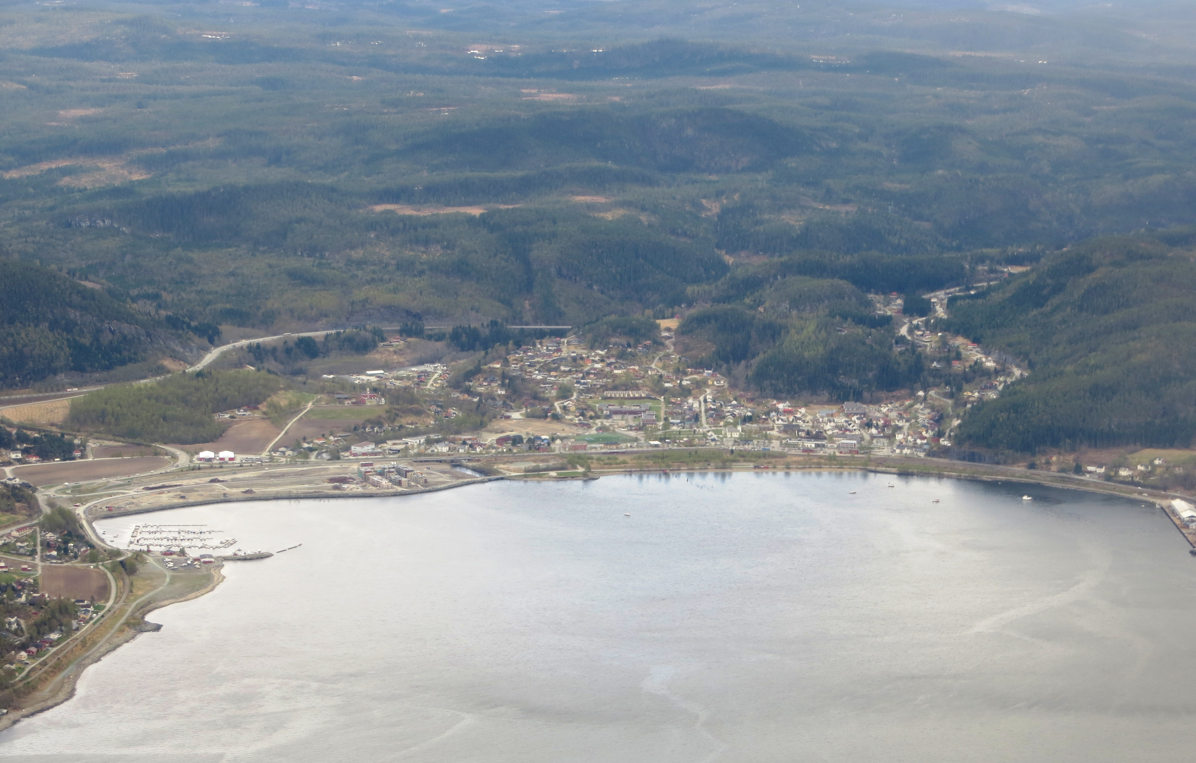 Image from the municipality of Malvik, along the Trondheim Fjord, just east of Trondheim - Norway.